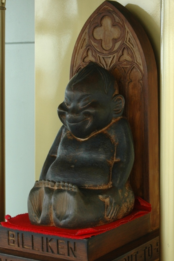 Billiken statue enshrined on fifth floor observation deck in Tsutenkaku Tower in Osaka, Japan. Photographed 24 May 2005.